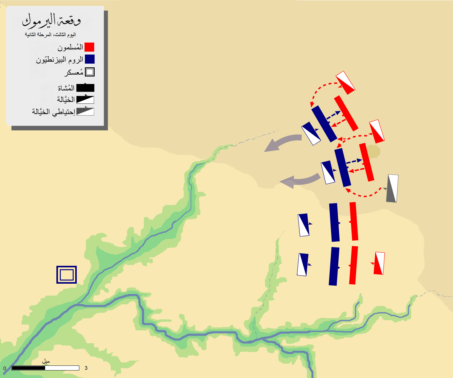 Battle_of_Yarmouk-day-3_phase-2